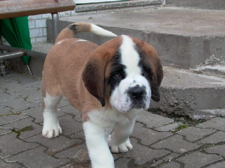 CostaLusa, These are photos from my own Saint Bernards